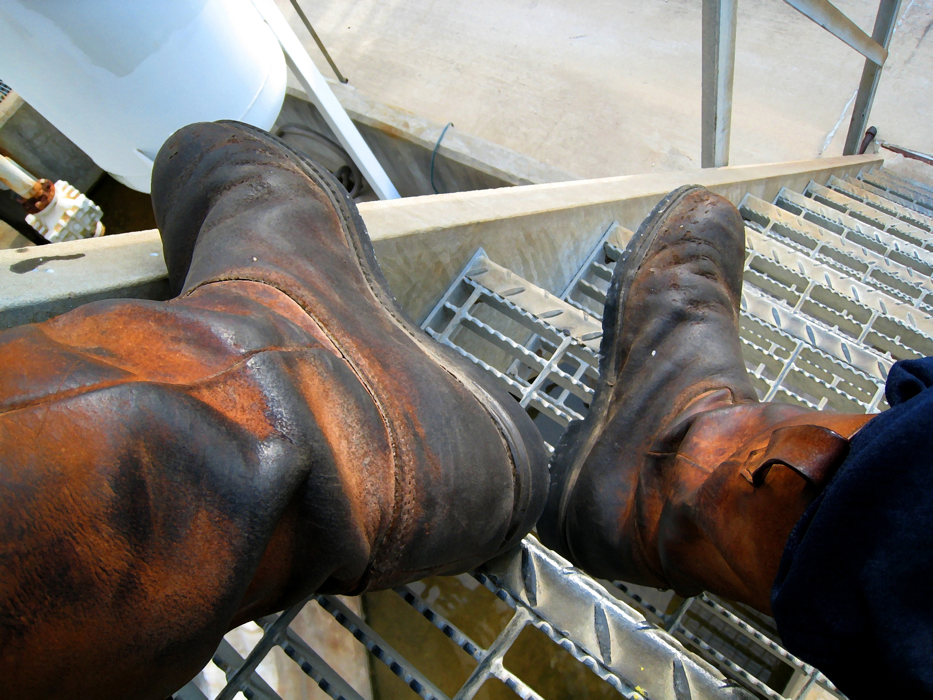 Self-portrait of my work boots while I wait for a load to finish unloading.